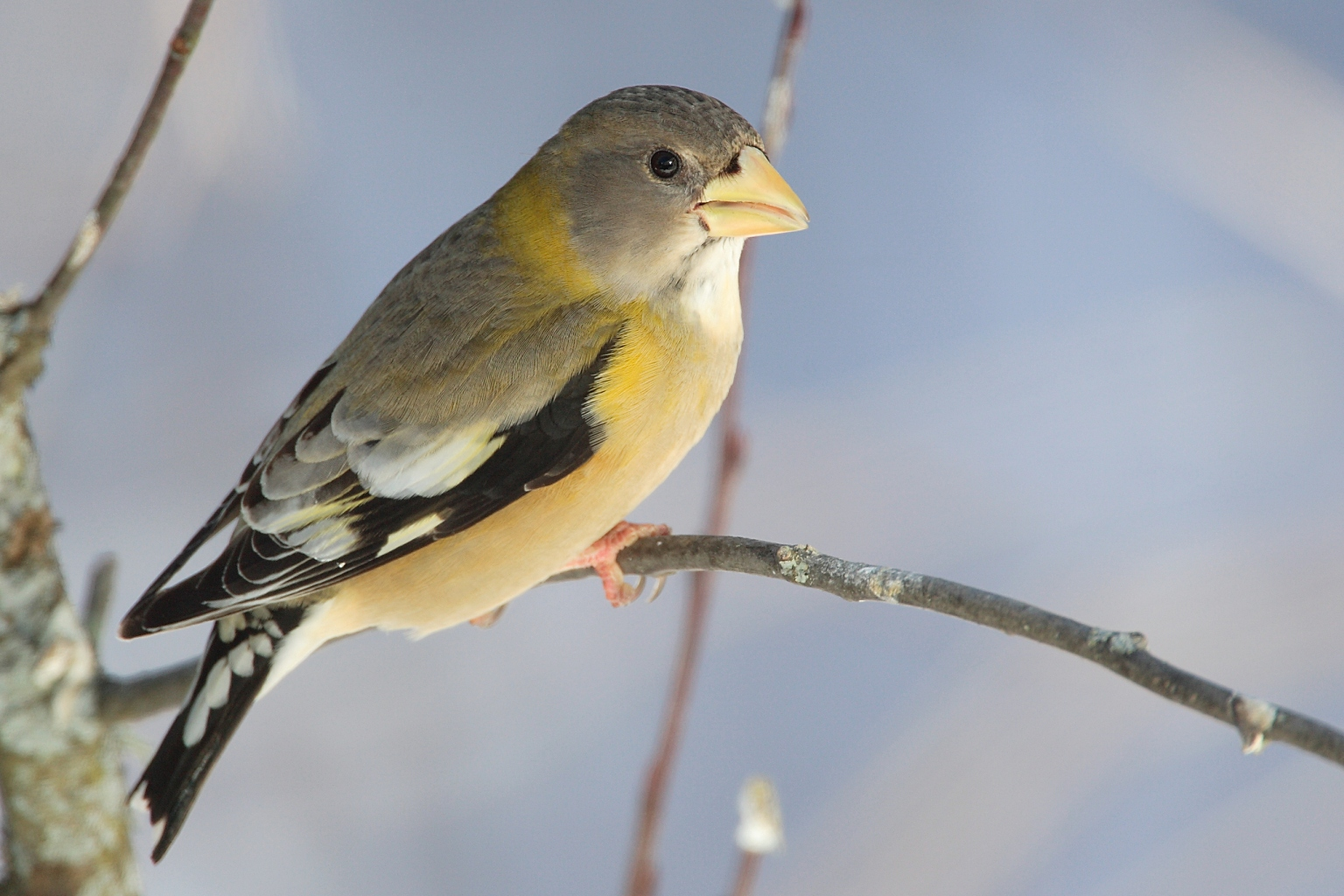 Evening Grosbeak -- Visitor Centre, Algonquin Provincial Park, Canada -- 2007 February